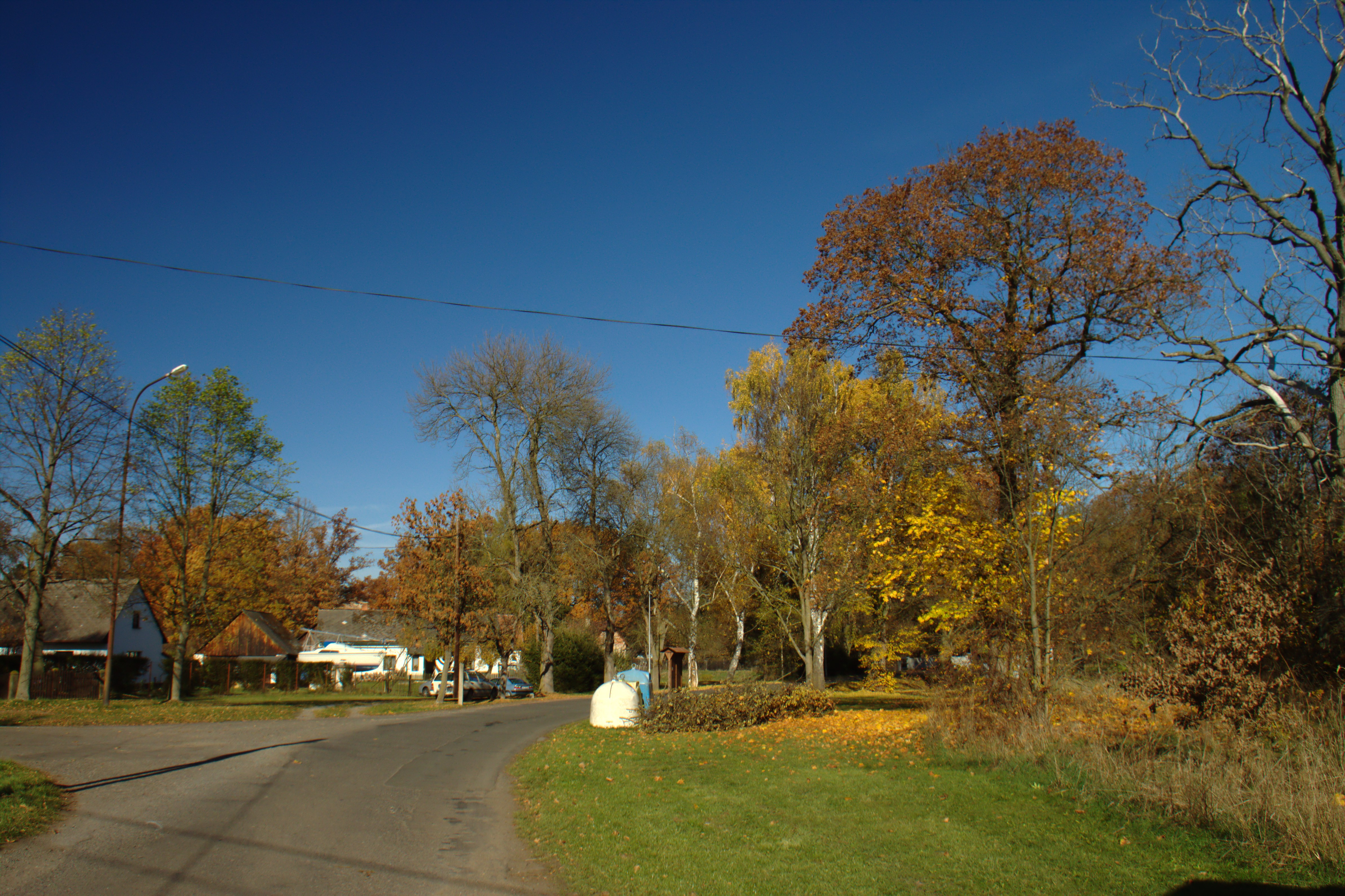 A common in the village of Zadní Poříčí, Central Bohemia, CZ